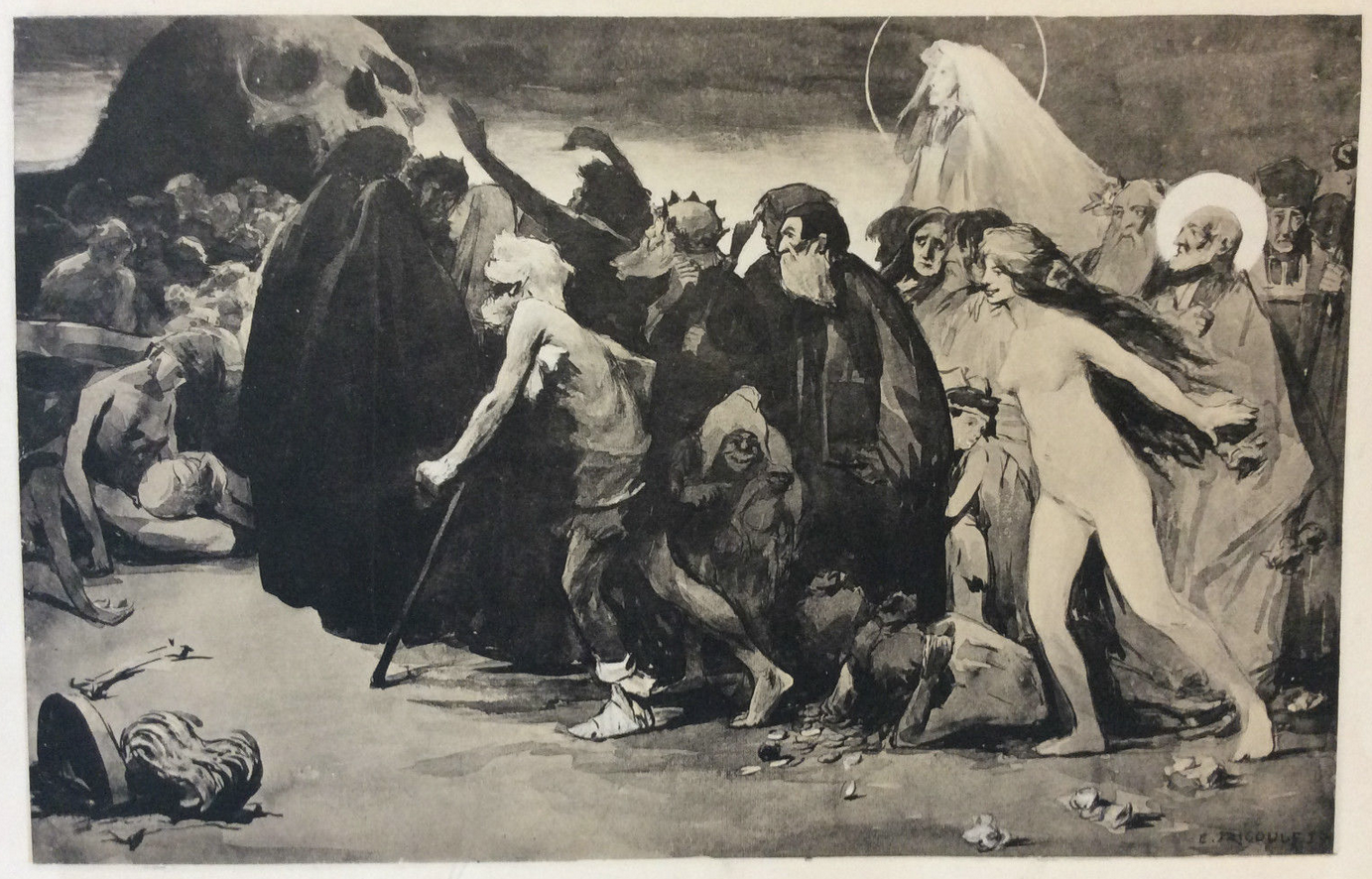 Le Chemin de la mort by Eugène Trigoulet, lithographic print from L'Estampe moderne, vol. II, Paris, F. Champenois.